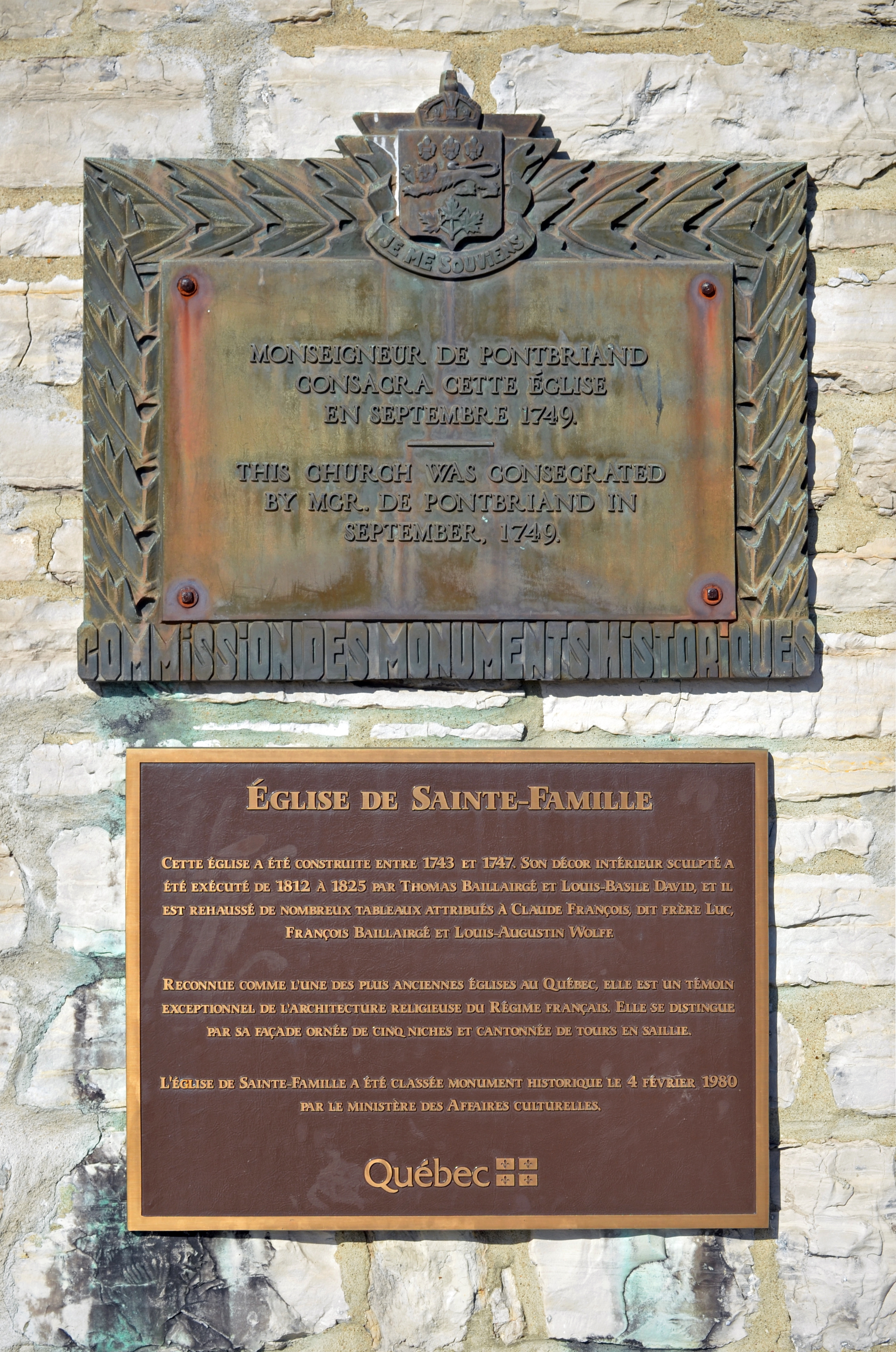 Commemorative plaques of Sainte-Famille church (L'Île-d'Orléans, Quebec)